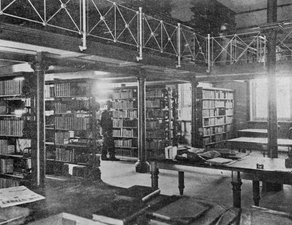 State Library of Queensland's reading room, Brisbane, 1902. 'Scene in the reading room of the new public library' (Description taken from the Queenslander, 10 May 1902).